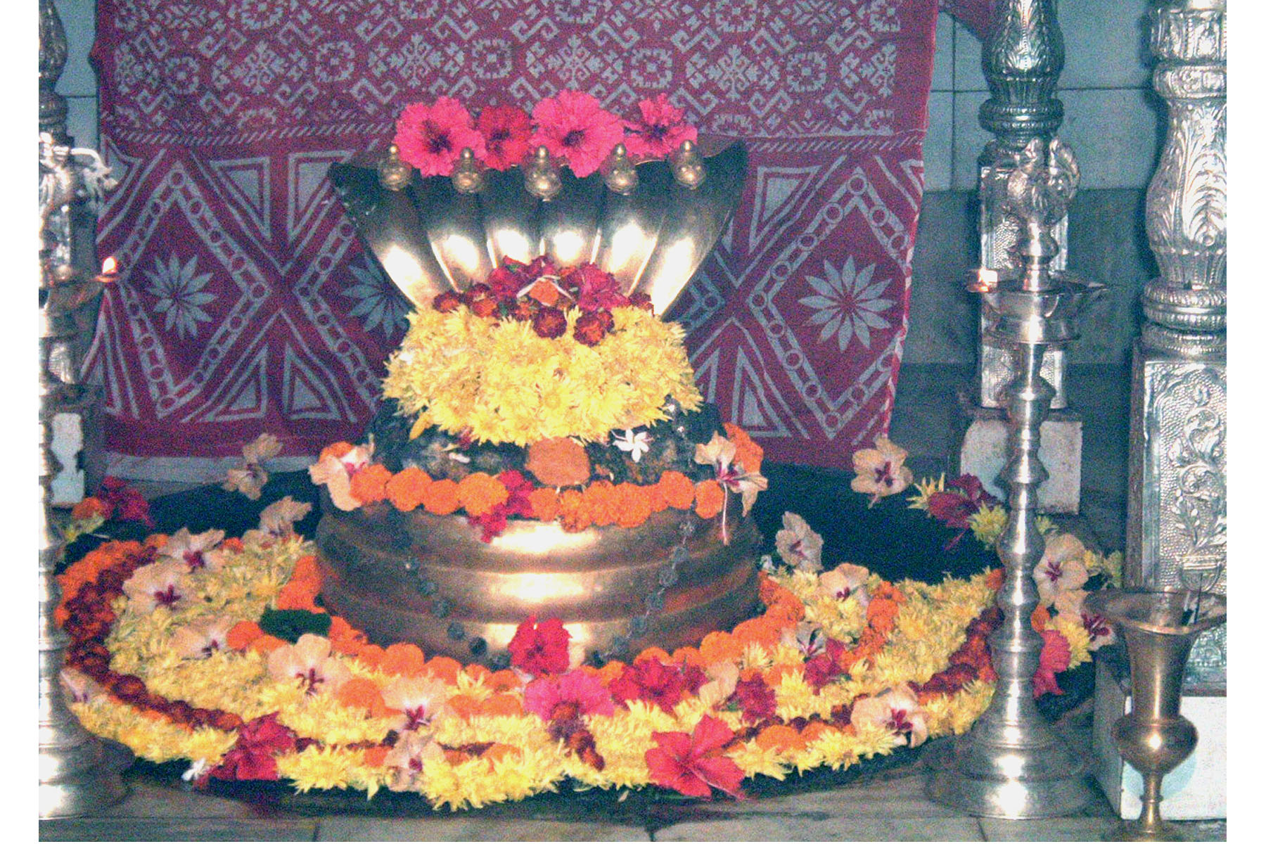 Achanta, Westgodavari Village of Andhrapradesh